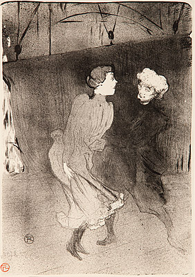 Dress rehearsal at the Foiles Bergère – Emilienne d’Alençon and Mariquita [Répétion générale aux Folies Bergère – Emilienne d’Alençon et Mariquita] L'Escarmouche, no. 4, 3 December 1893 1893 brush, crayon and spatter lithograph with scraper, printed in olive-grey 37.0 (h) x 26.2 (w) cm , First edition; edition of 100 Reference: Wittrock 34 Art Gallery of South Australia, Adelaide David Murray Bequest Fund 1932